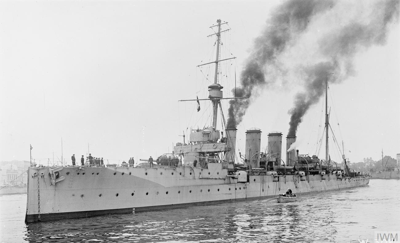 British Town-class light cruiser of 1909 HMS GLOUCESTER at anchor at Brindisi, Italy, 1917.